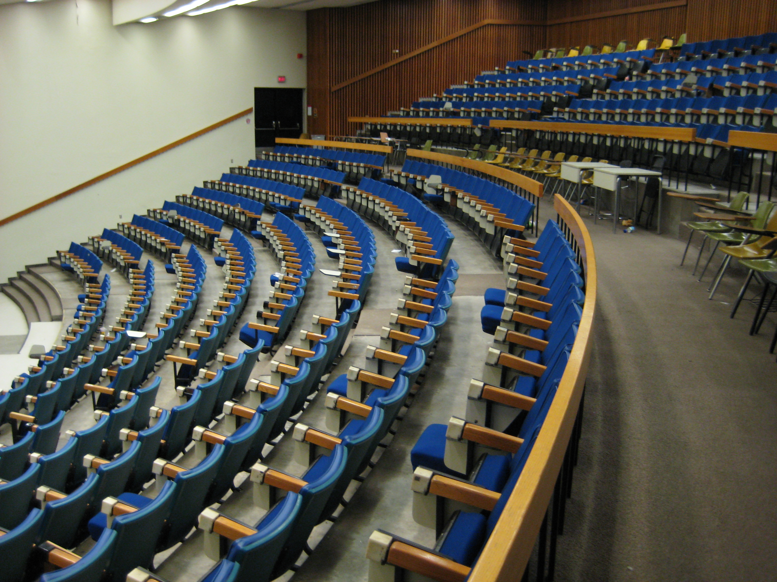 One of the large lecture halls hosted within the Curtis Lecture Halls building at York University.